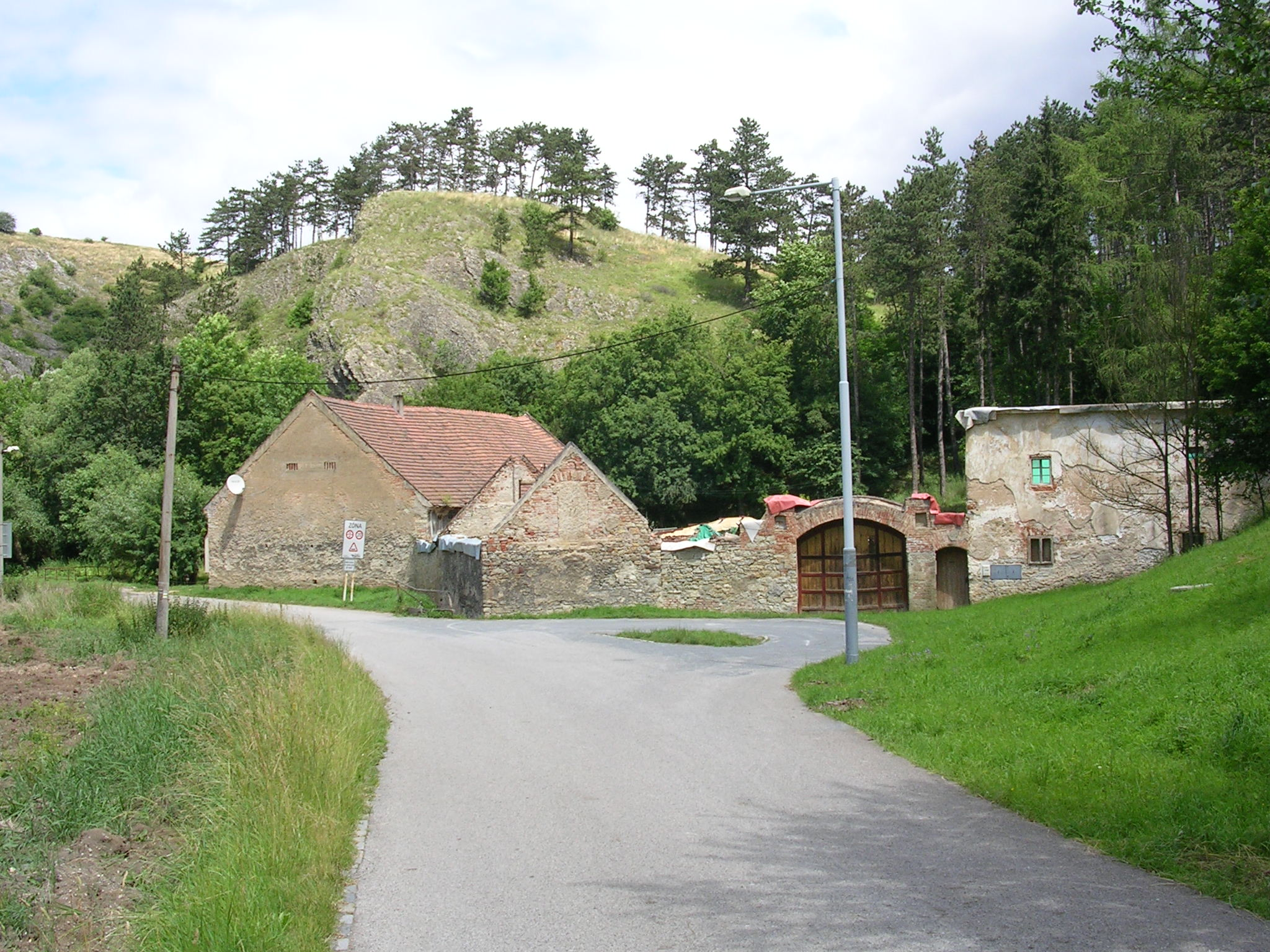 Hlubočepy, Prague, the Czech Republic. Klukovice.